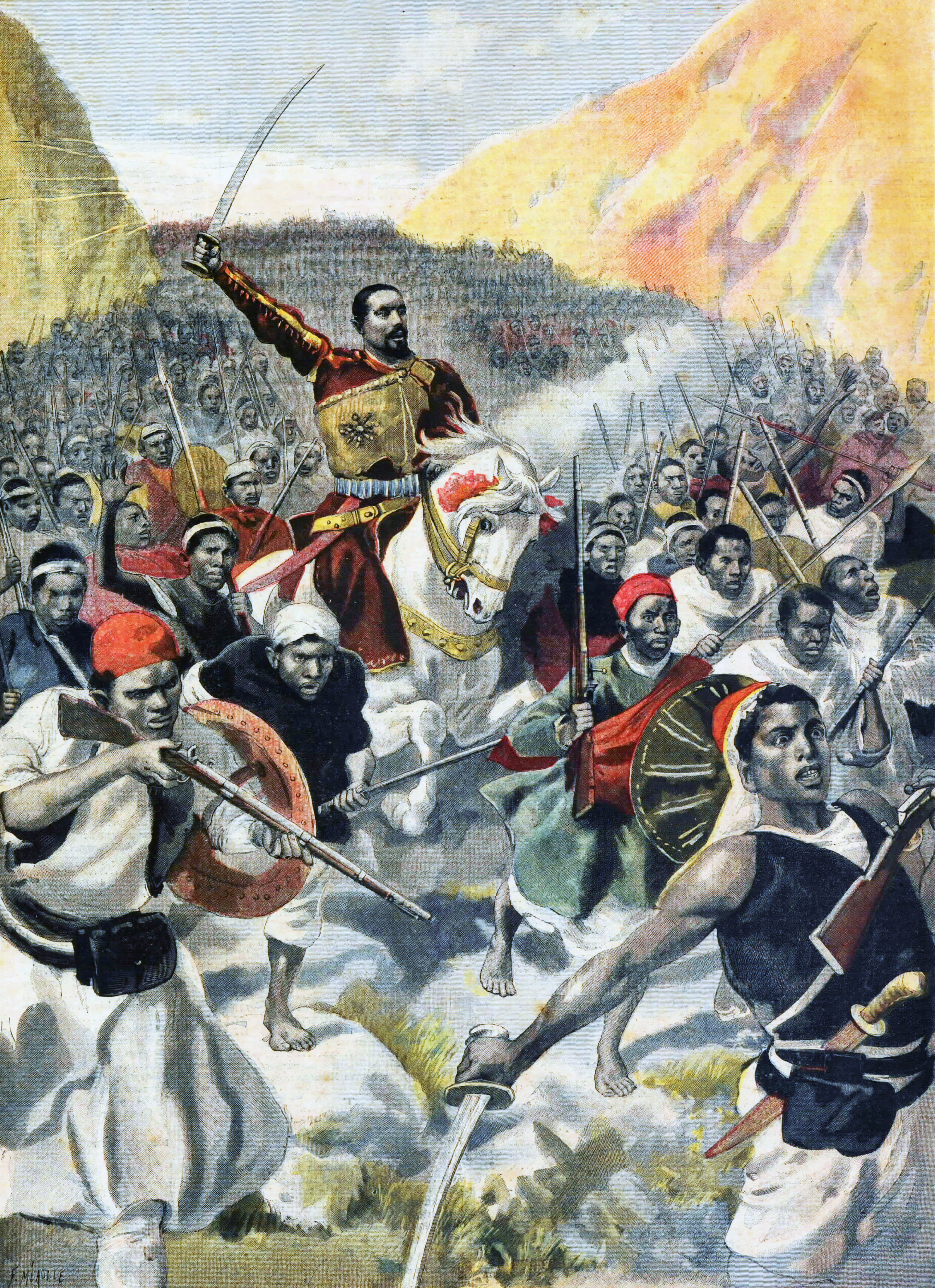 Page from old french newspaper "Le Petit Journal" depicting Ras Mekonnen at the battle of Amba Alage